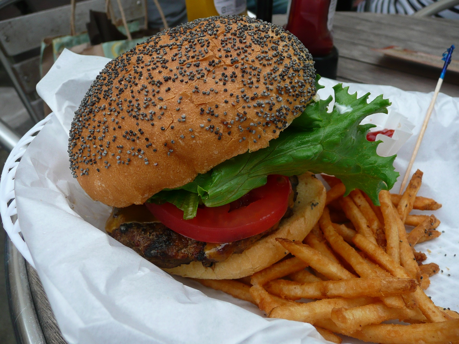 Kua 'Aina - cheeseburger